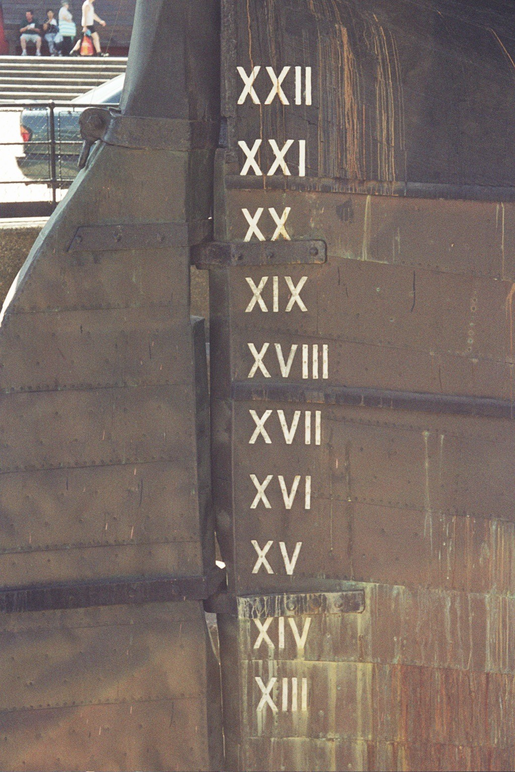 Roman Numbers on Cutty Sark